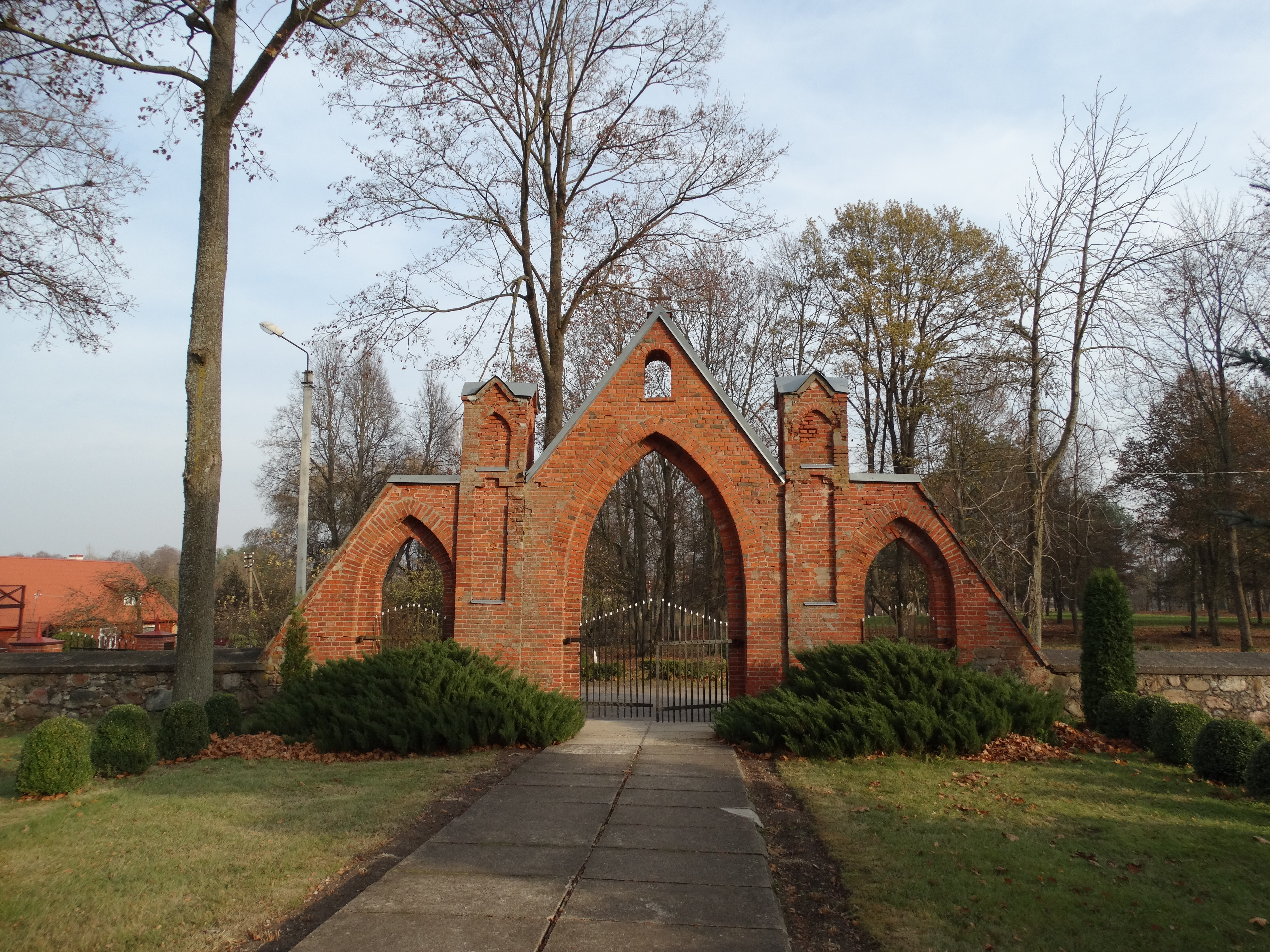 Evangelical Reformed Church (gates) in Biržai, Lithuania